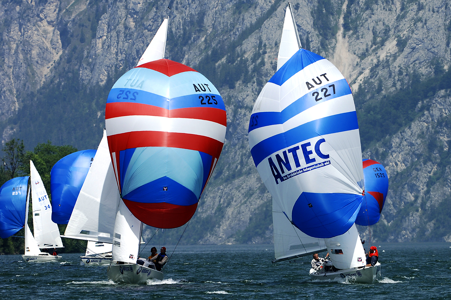 H-Boat Regatta at Ebensee - Austria